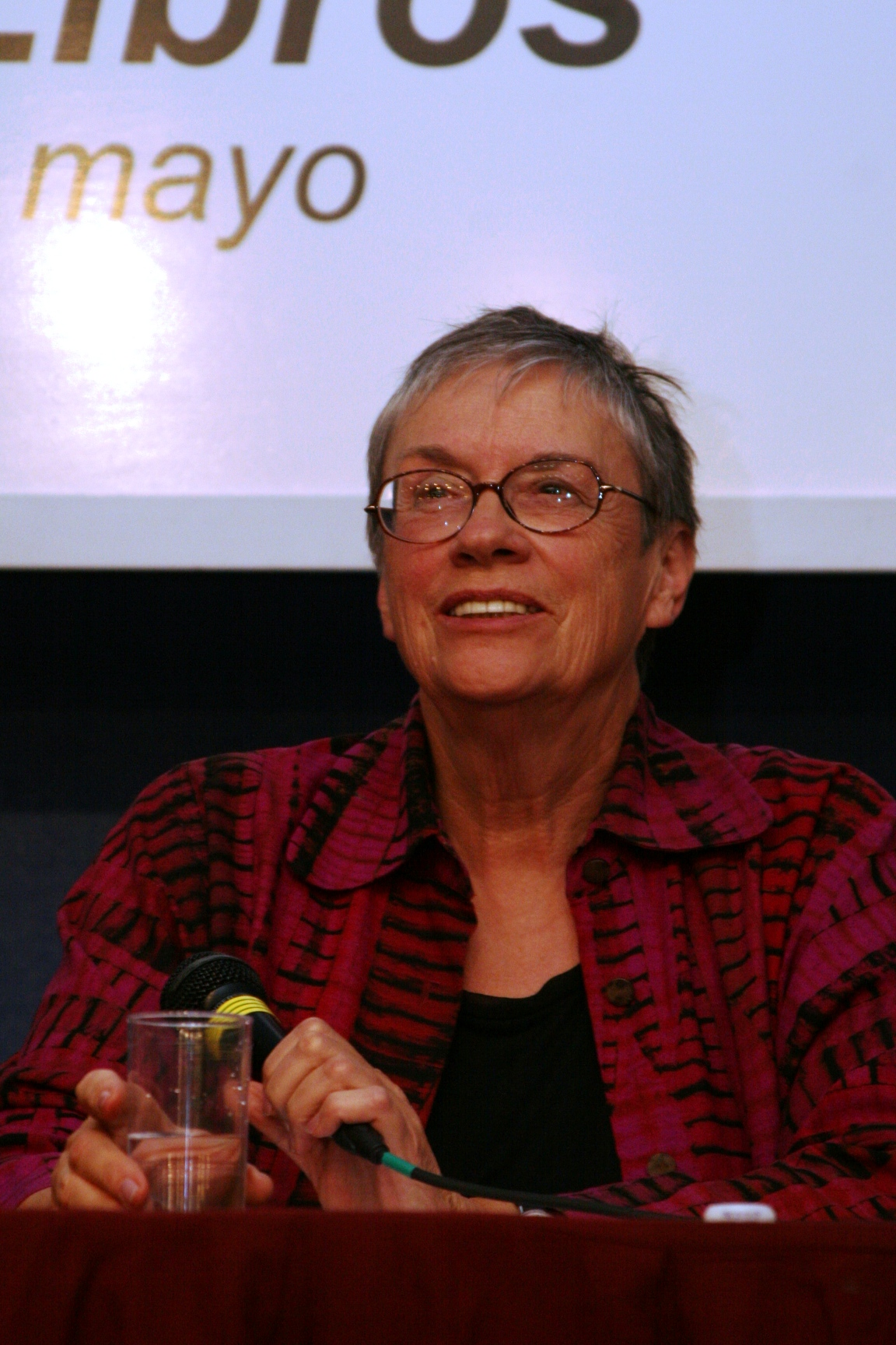 Annie Proulx at a conference for the 2009 Frankfurt Book Fair.